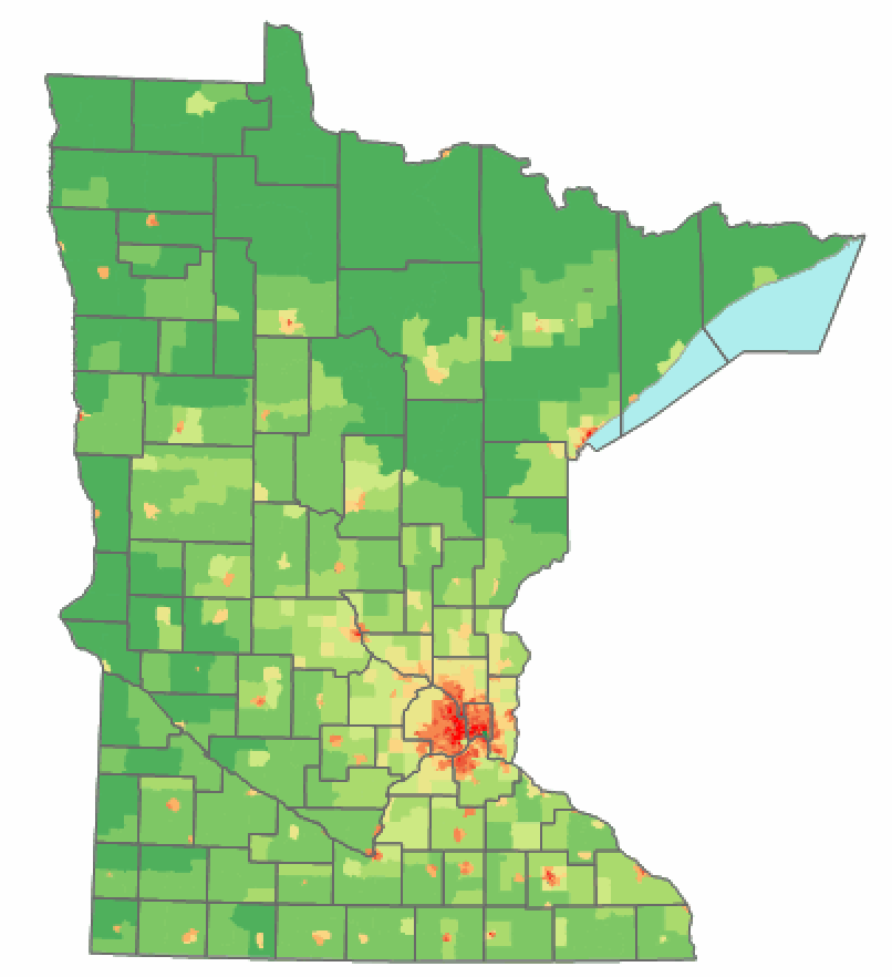 Minnesota state population density map based on Census 2000 data. Image:Population map key.png